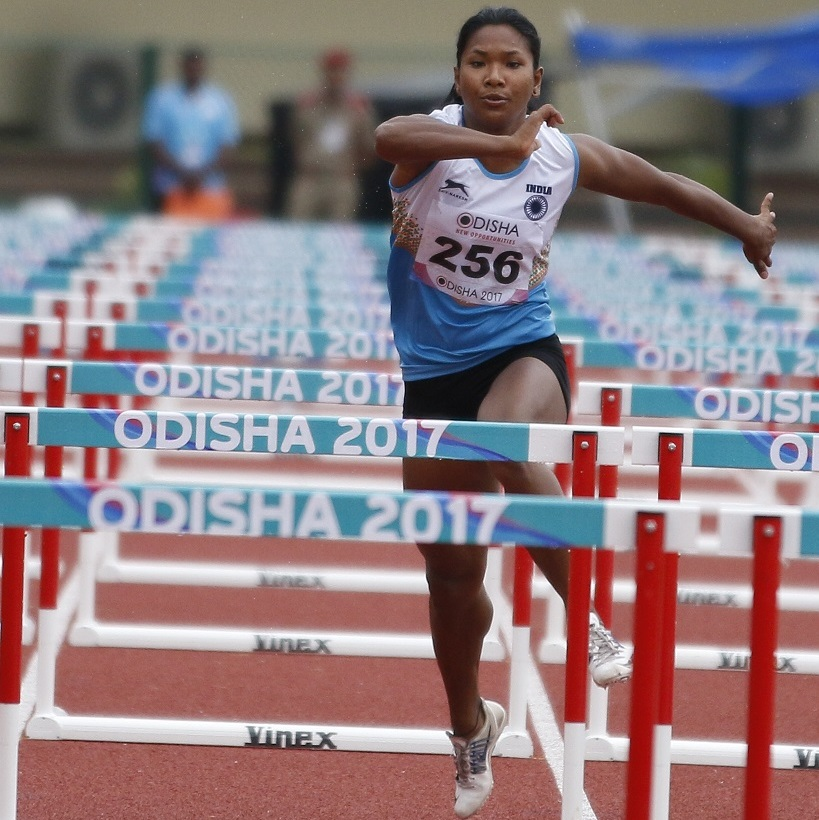 picture taken at the 2017 Asian Athletics Championships in July 2017 in Bhubaneshwar. L to R ???, Meg Hemphill, Swapna Barman, Eri Utsunomiya, and ?????